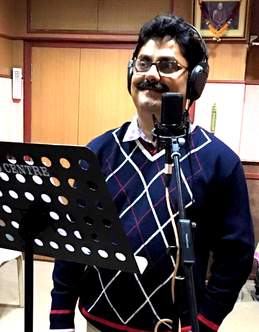 Shuvodeep Mukherjee in Gathani Recording Studio, Kolkata